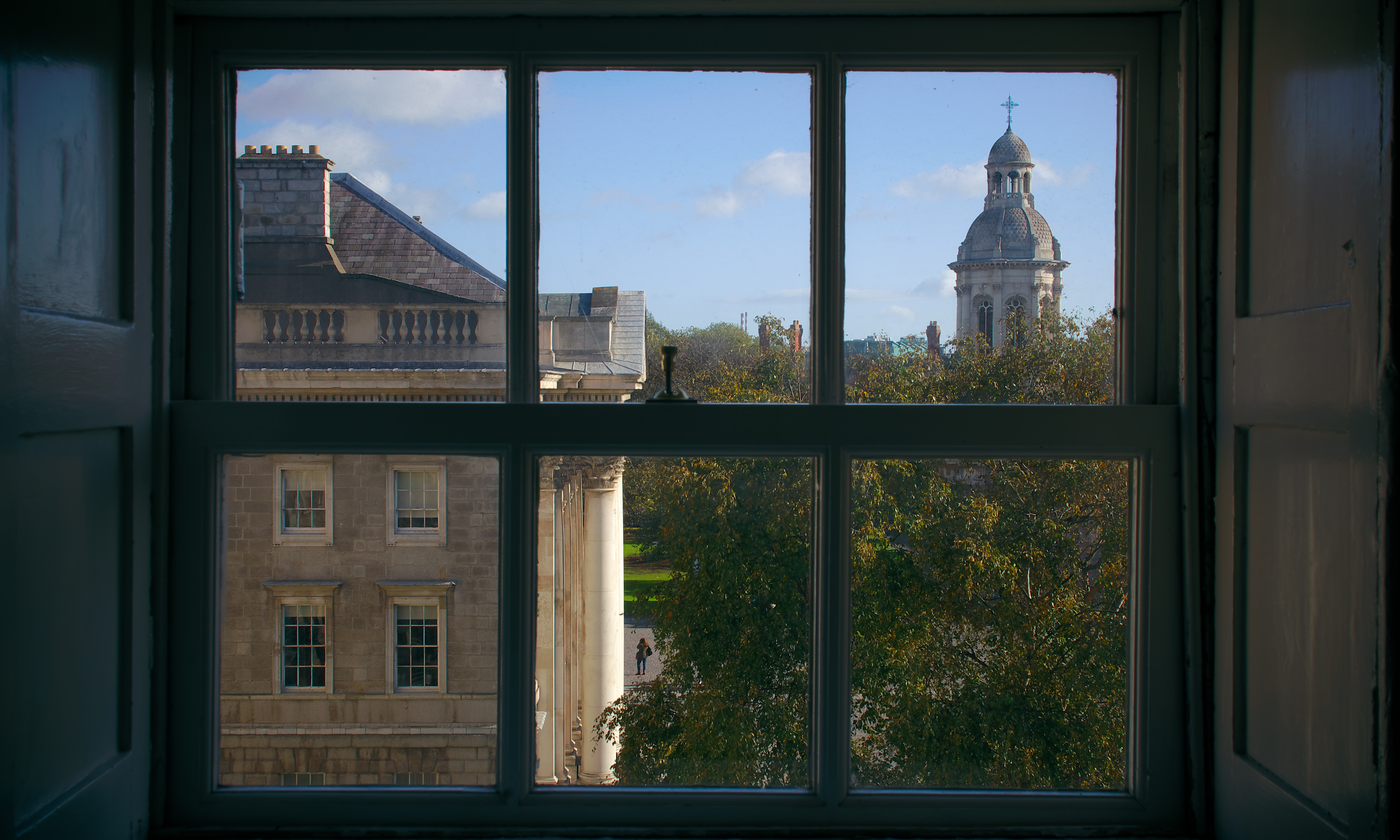 House 6